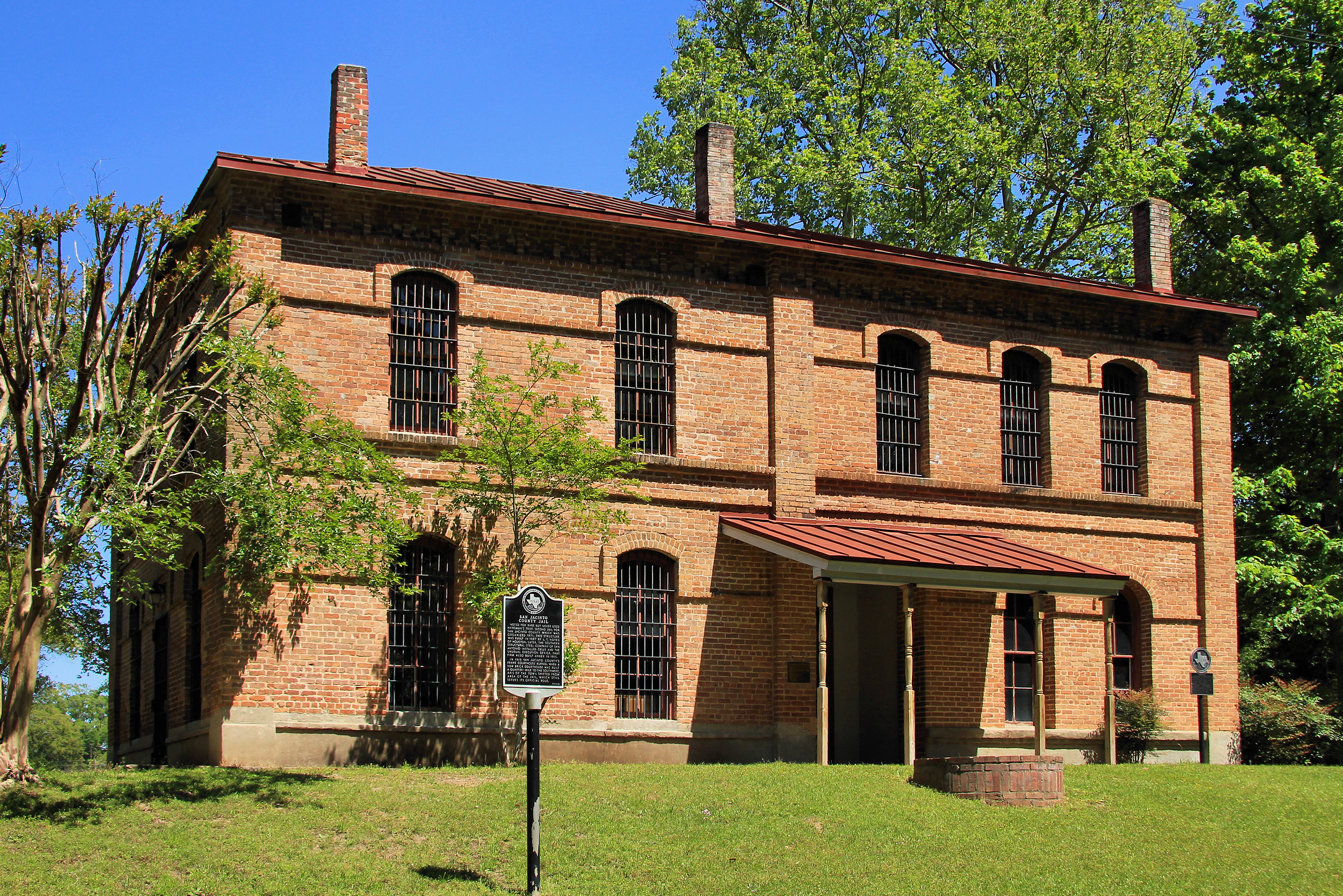 The Old San Jacinto County Jail in Coldspring, Texas, United States. The jail was designated a Recorded Texas Historic Landmark in 1982 and was listed on the National Register of Historic Places on July 15, 1980.